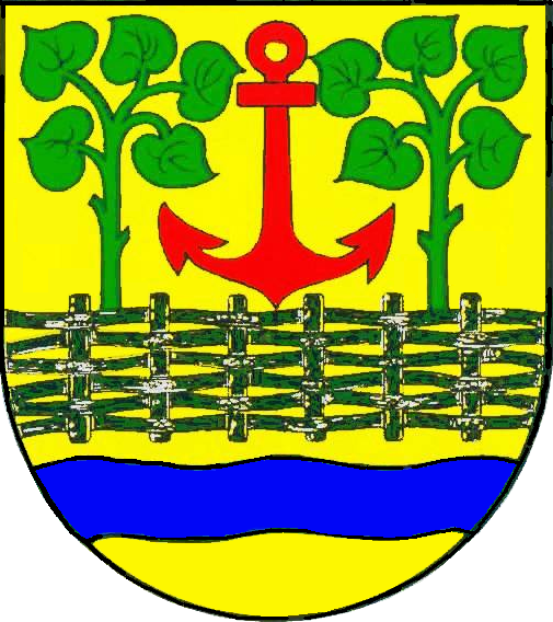 Coat of arms of the municipality Leck in Schleswig-Holstein, Germany.